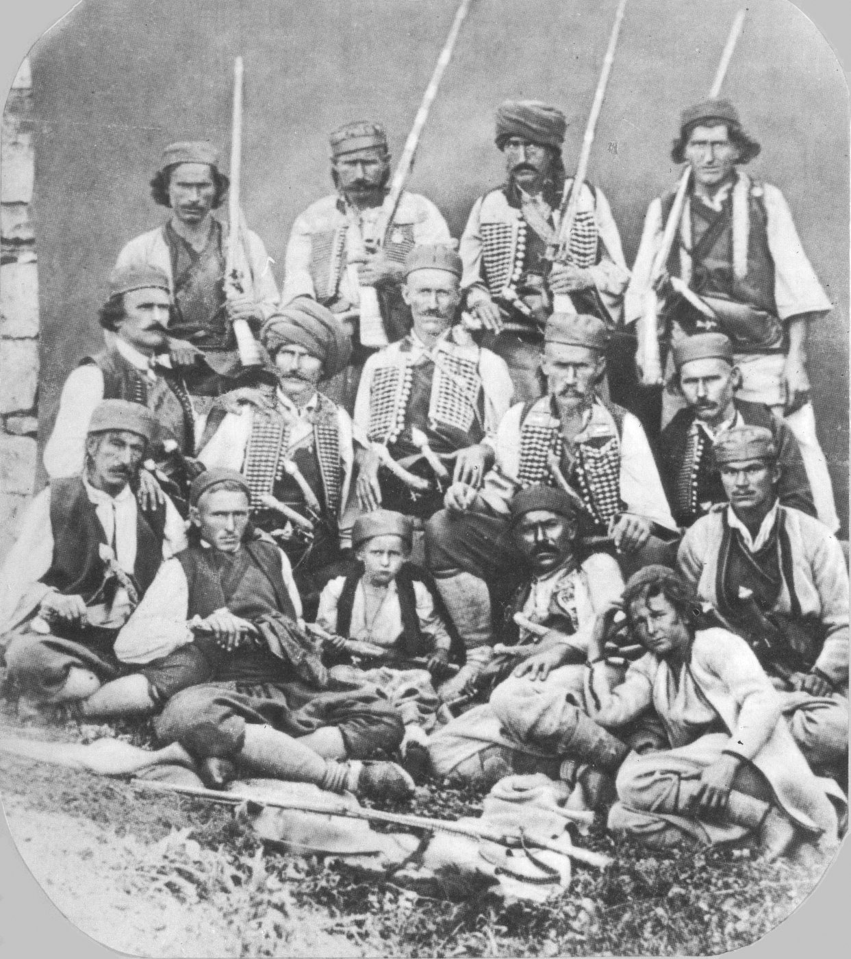 Peasants of the Banjani, in Old (East) Herzegovina, photography taken in ca. 1860